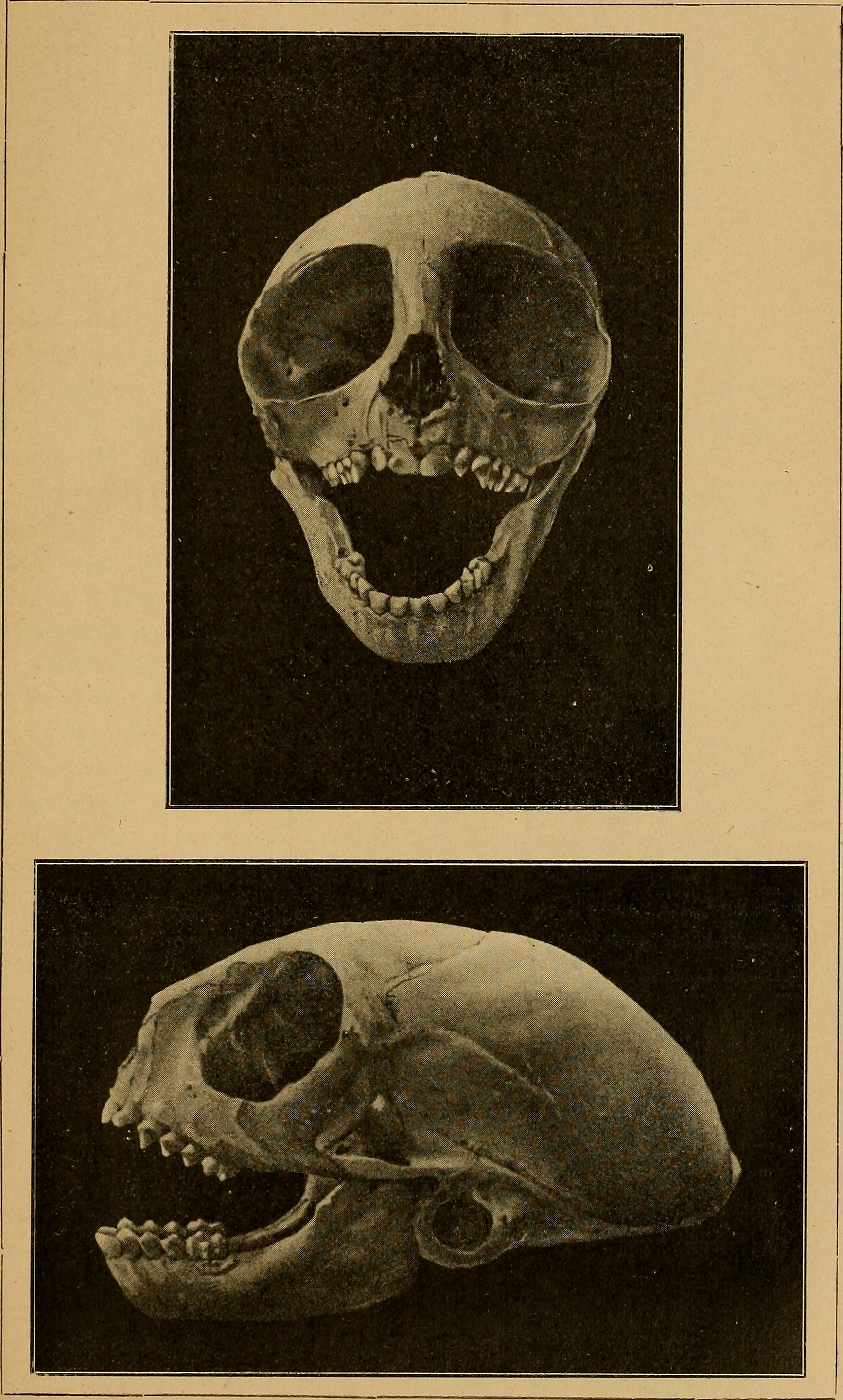 Title: Bollettino della Societá romana per gli studi zoologici Year: 1892 (1890s) Authors: Societá romana per gli studi zoologici Subjects: Societá romana gli studi zoologici; Zoology; Zoology Publisher: Roma : La Societá Text Appearing Before Image: Prof. A. CARRUGGIO. — Testa ossea di Nyctìpìthecus Azarae. Cingrand. 1 ìolla e I/o) Text Appearing After Image: lìollett. Soc. ISom. Studi Zool. Voi. V. D.l' G. Ar.ESSANDKINI fot.